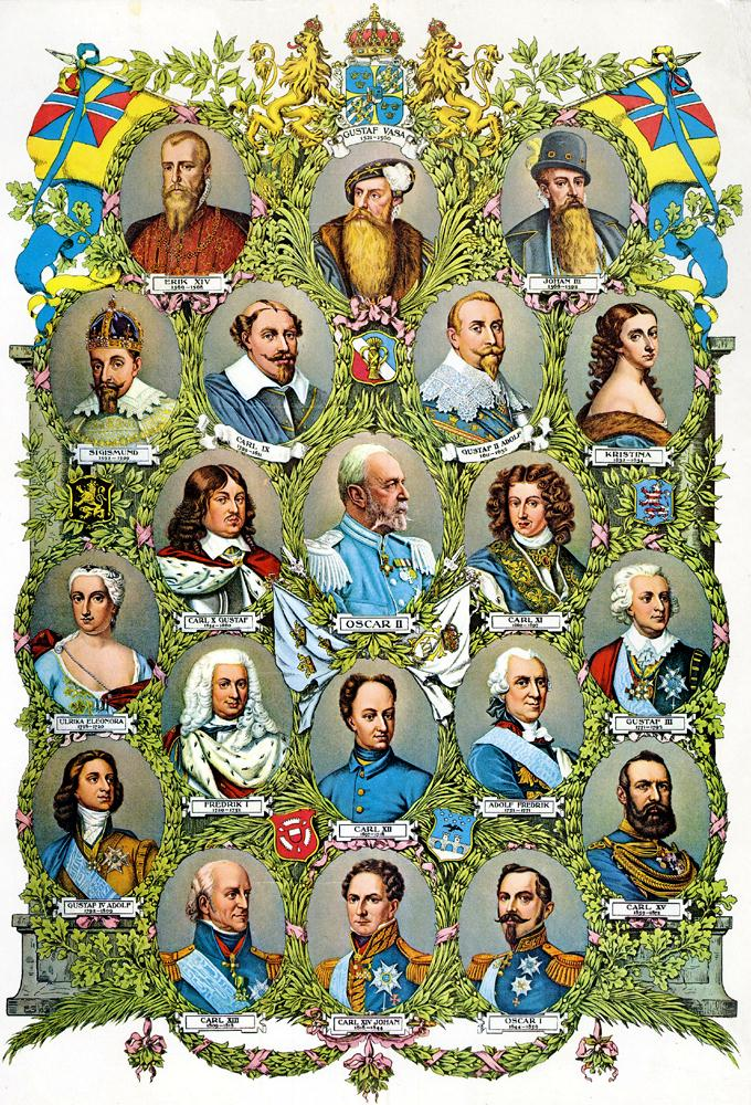 The royal rulers (Kings and Queens Regnant) of Sweden 1523-1907 as labeled